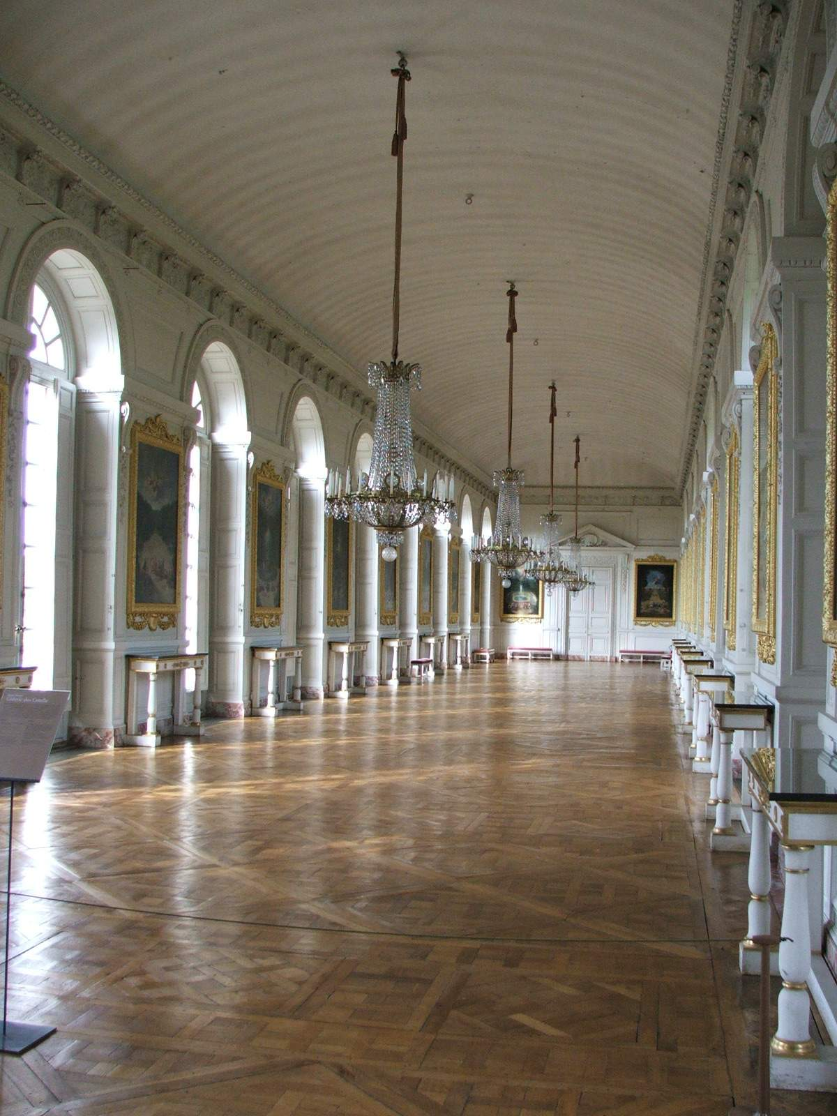 The room, where the Treaty of Trianon was signed